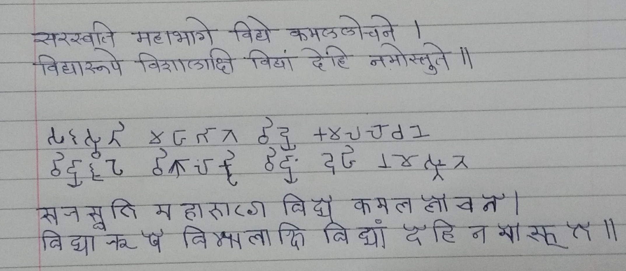 Sarswati Mantra in Devnagari, Brahmi and Newari